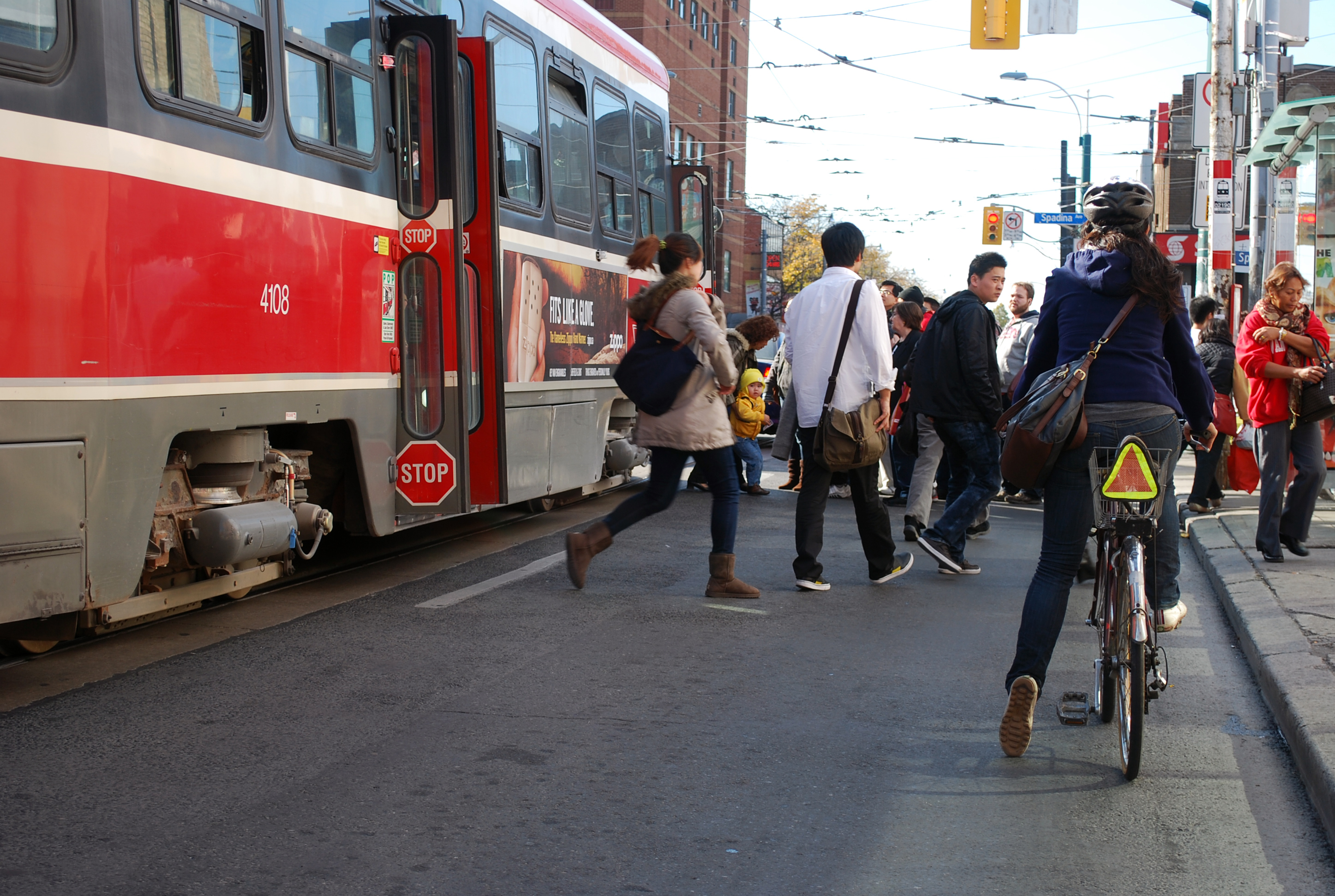 A cyclist stopping for streetcar passengers